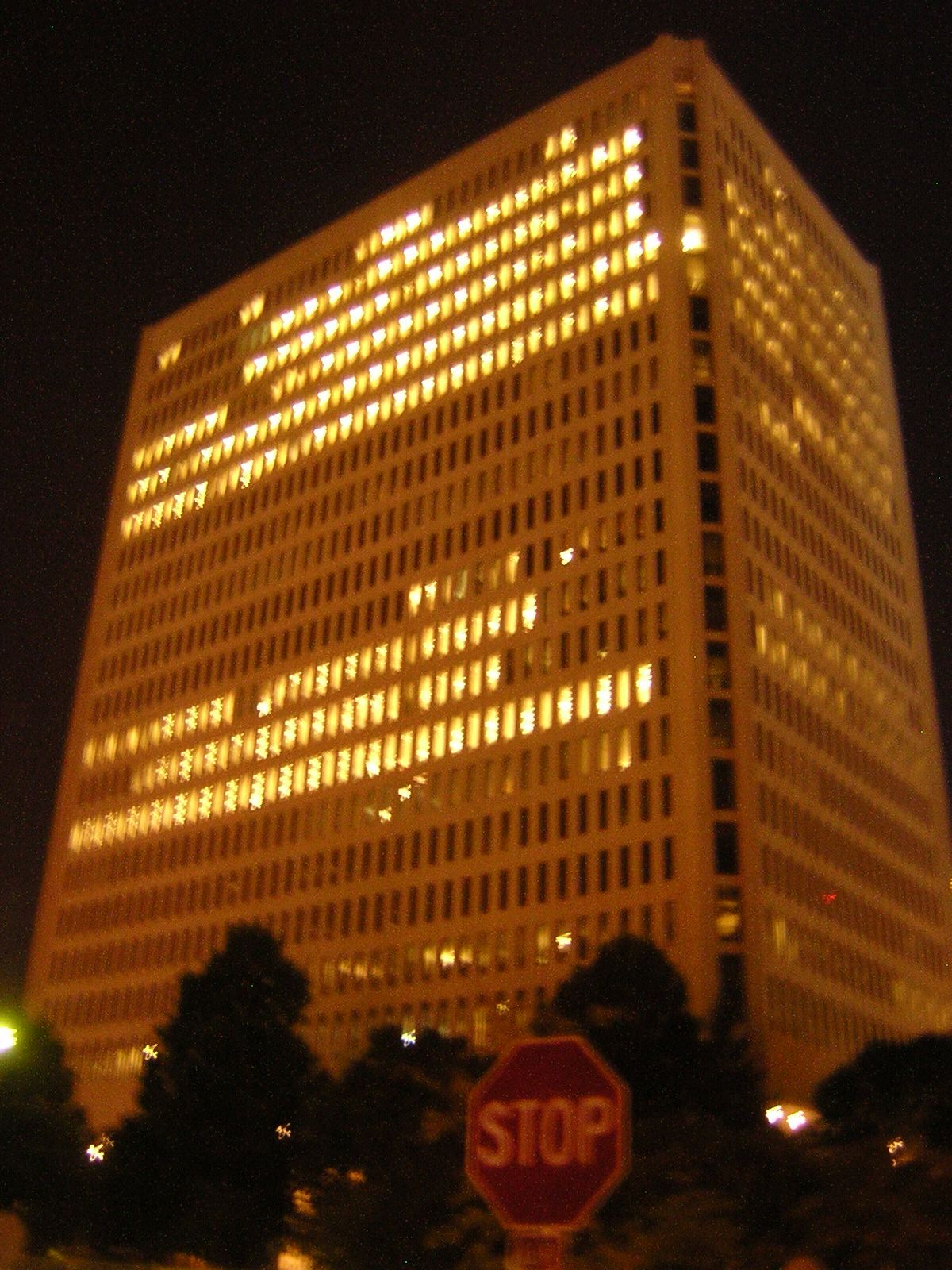 A nighttime view from Marquette Avenue in downtown Minneapolis, Minnesota, USA. According to James Lileks, "It's still a lovely city."